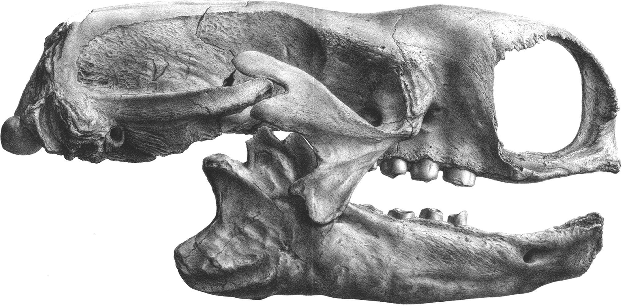 Skull of Mylodon darwinii in lateral view